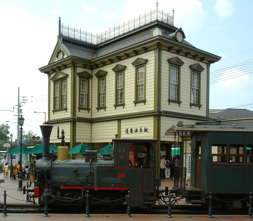 Dogo station, Matsuyama, Japan, 3 July 2004